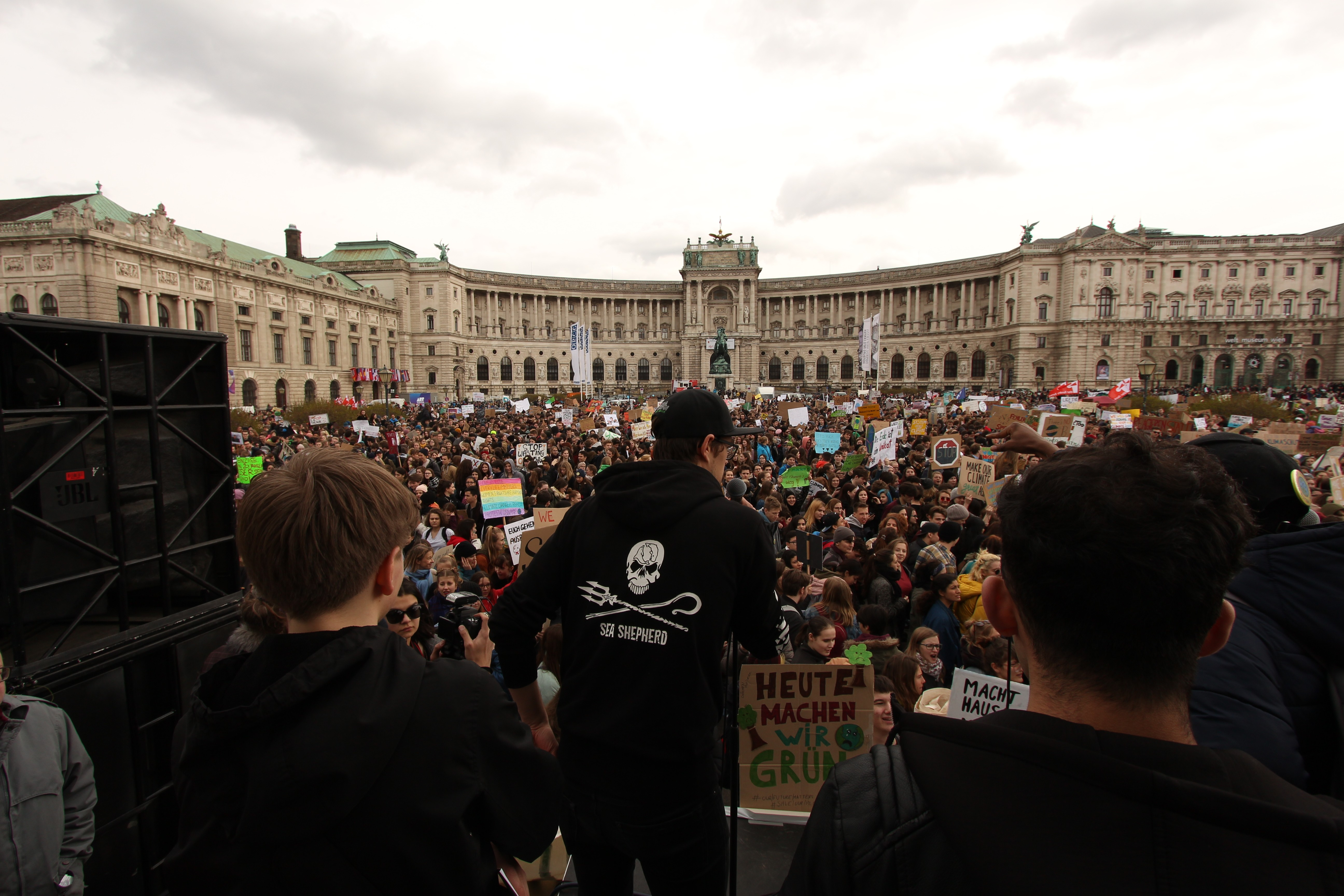 The school strike for climate (FridaysForFuture) on Heldenplatz in Vienna (Austria) on March 15 2019.